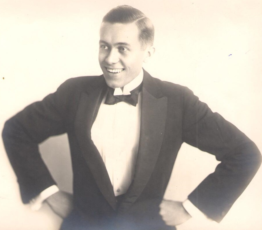 Nick Grinde. Circa 1920s